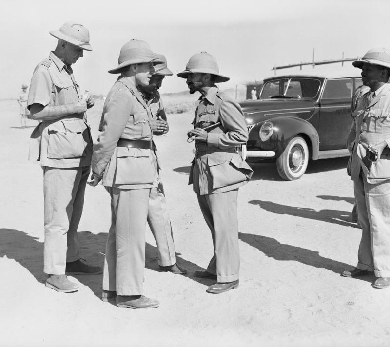 British Generals 1939-1945 Major General O C Wingate (1903 - 1944): Wingate, 'Gideon Force' Commander, talking with the Emperor Haile Selassie of Abyssinia.